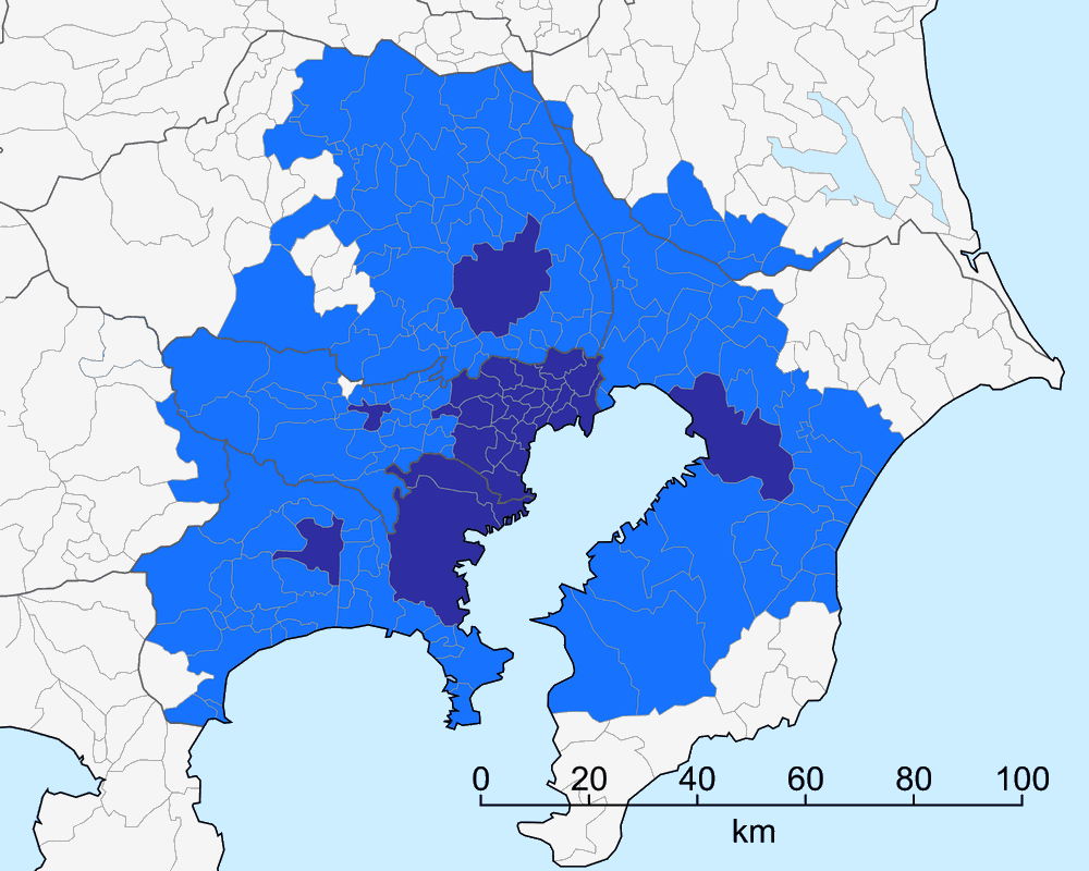 Tokyo Metropolitan Employment Area in 2015, according to the info from English Wikipedia.